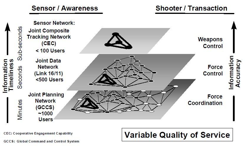 Variations in the Quality of Service across the warfighting enterprise.